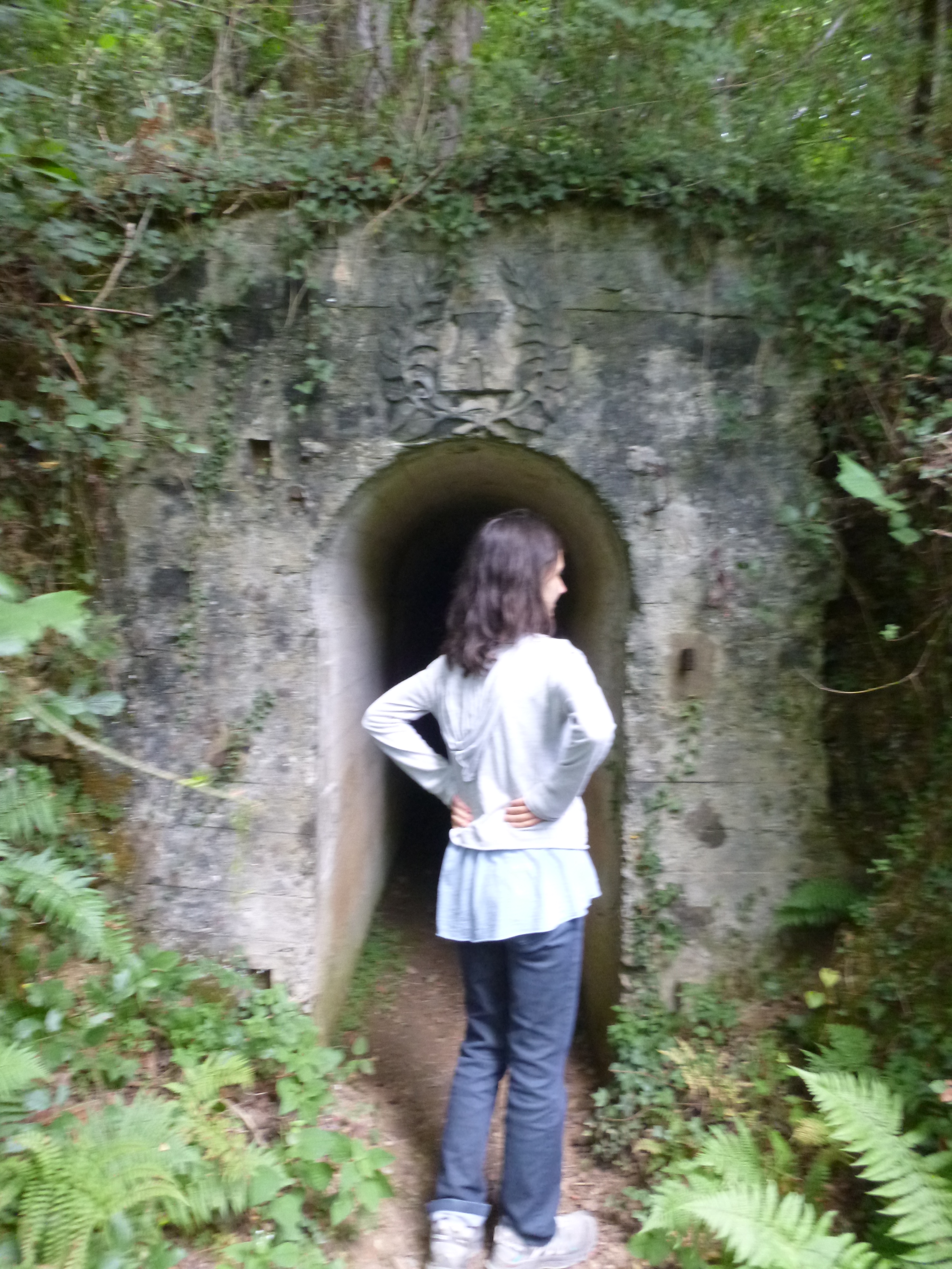 Arkale